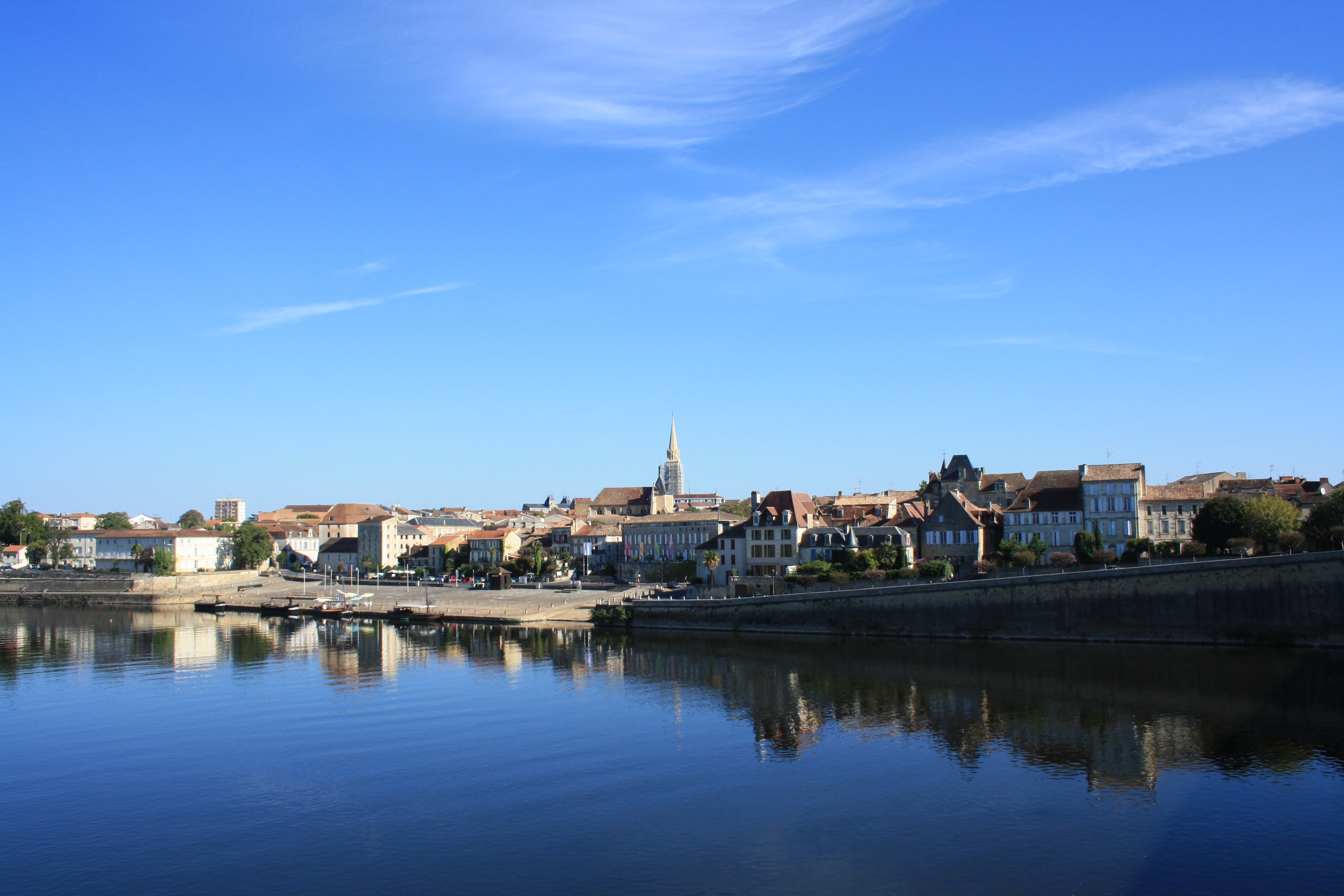 View from Old bridge in Bergerac, Dordogne, France.